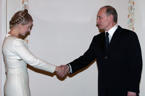 NOVO-OGARYOVO. With Ukrainian Prime Minister Yulia Timoshenko.